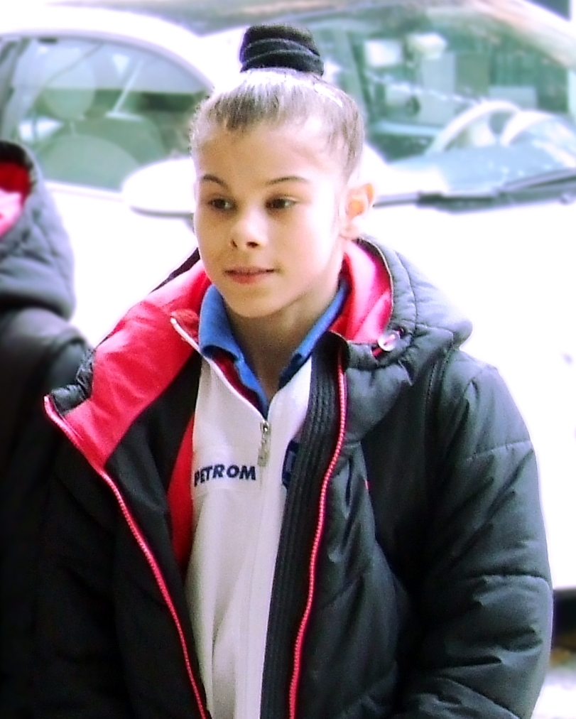 The romanian gymnast Laura Jurcă